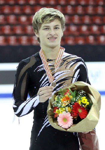 Artem GRIGORIEV at the men's medal ceremony at the 2009 World Junior Championships.